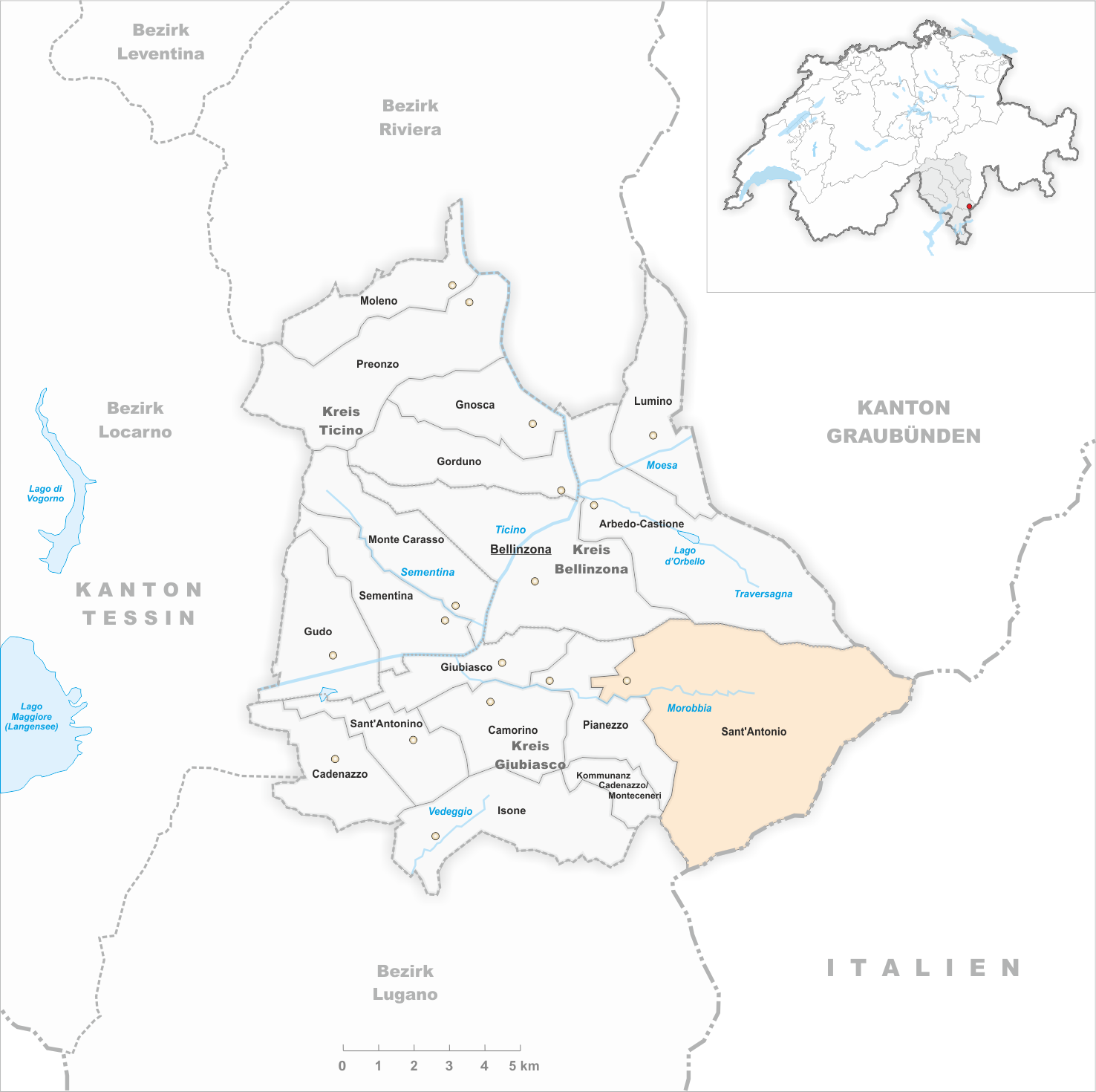 Municipality Sant'Antonio